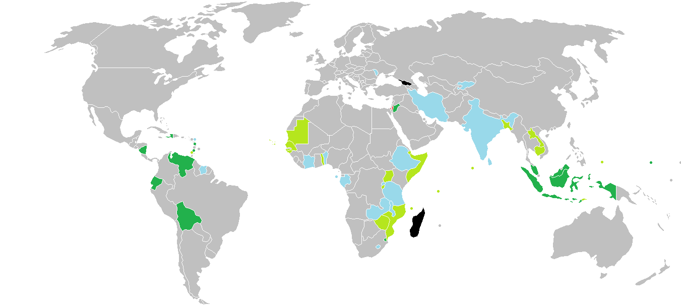 Madagascar Updated